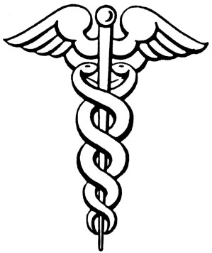 Caduceus, large